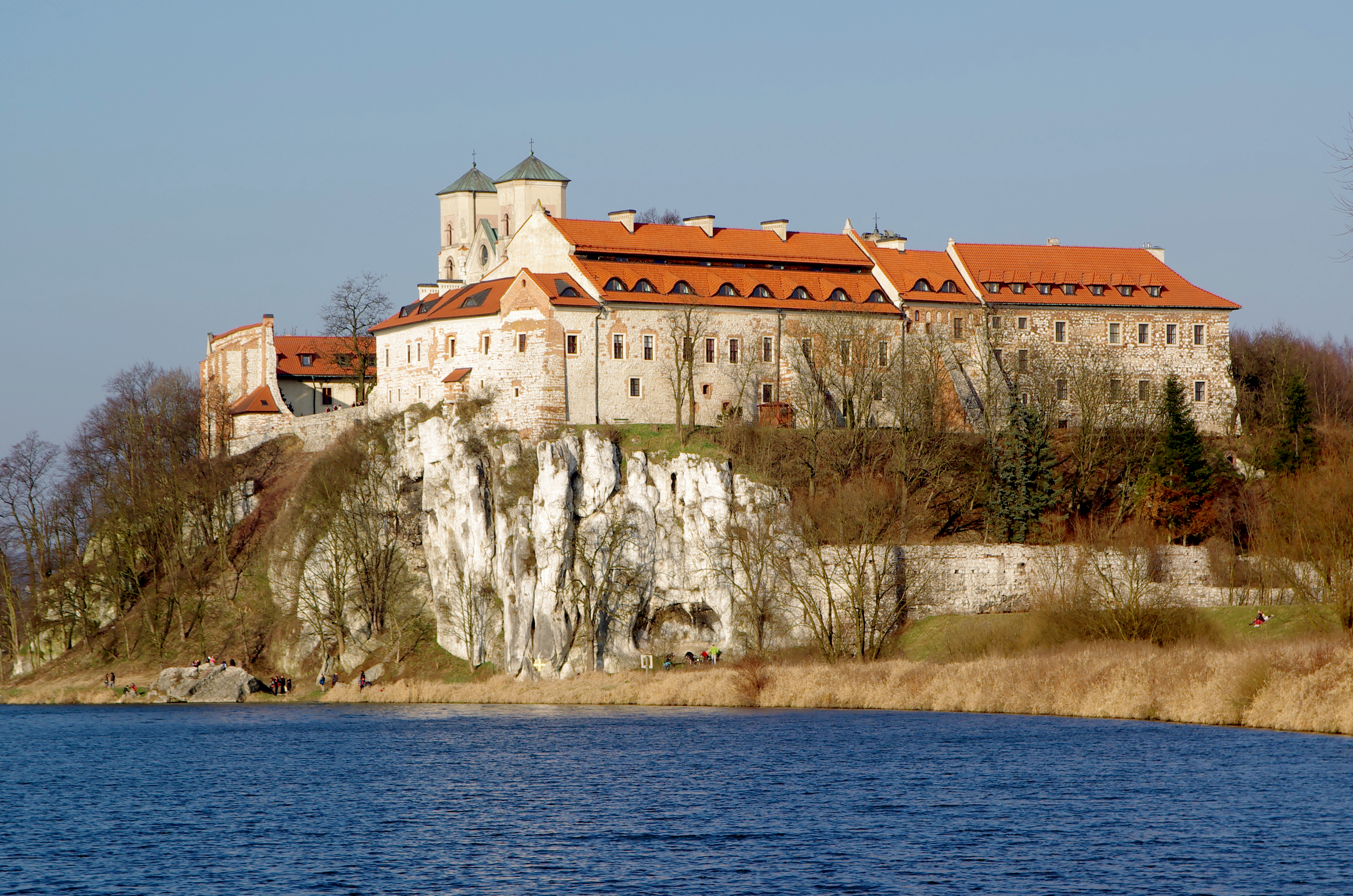 The Benedictine Abbey in Tyniec, Kraków